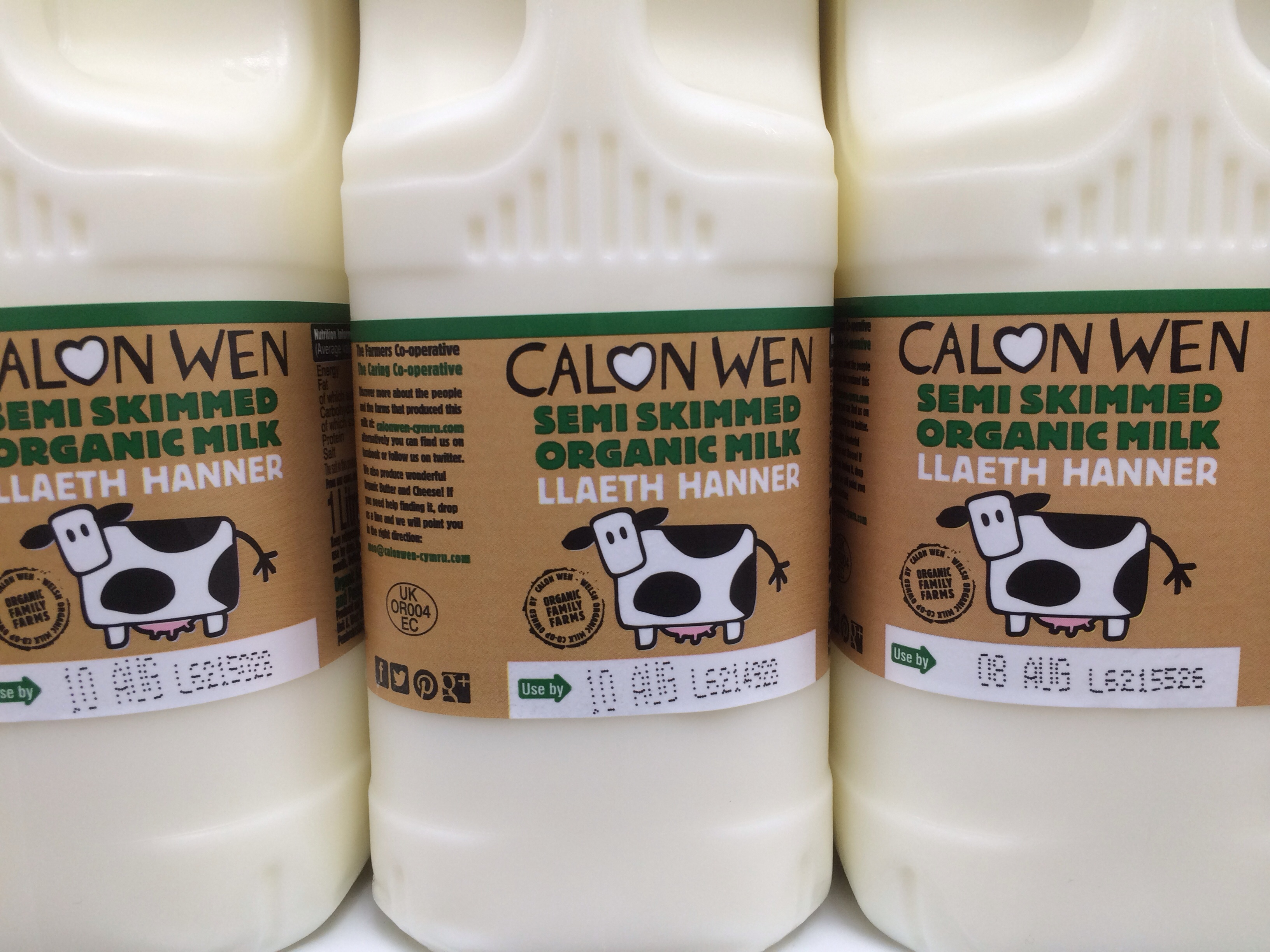 Bottles of Calon Wen semi-skimmed milk produced by a Welsh farming co-operative